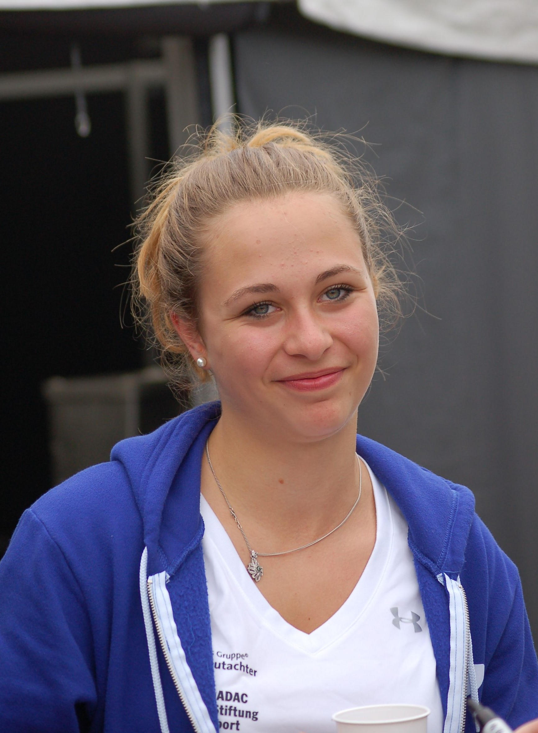 Sophia Flörsch in Zandvoort 2016